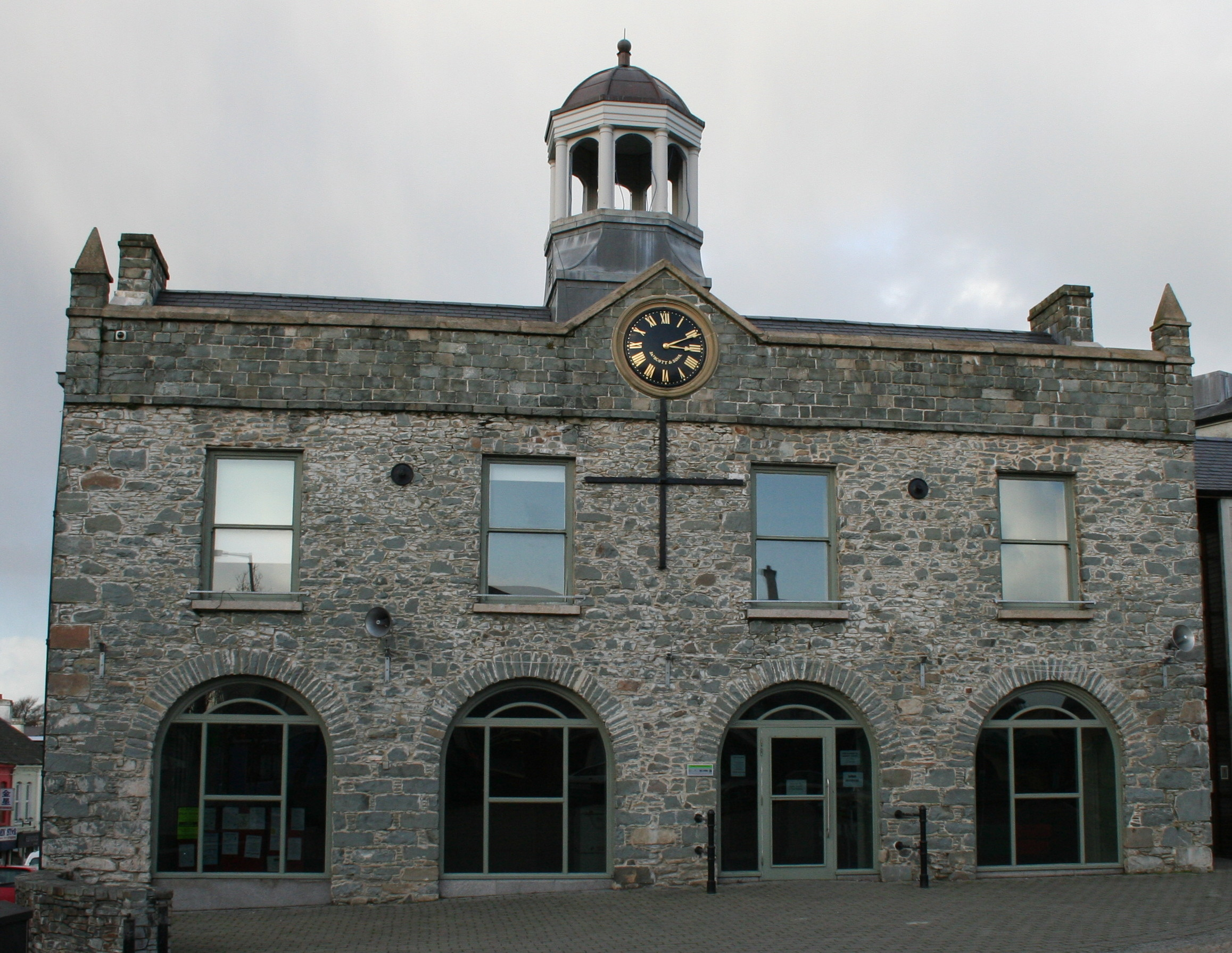 Ballynahinch Market House, Ballynahinch, County Down This picture was used by the East Down Advertiser (issue 74, December, 2008) in an article entitled "The Market House in Ballynahinch." PeterClarke 21:22, 3 December 2008 (UTC)